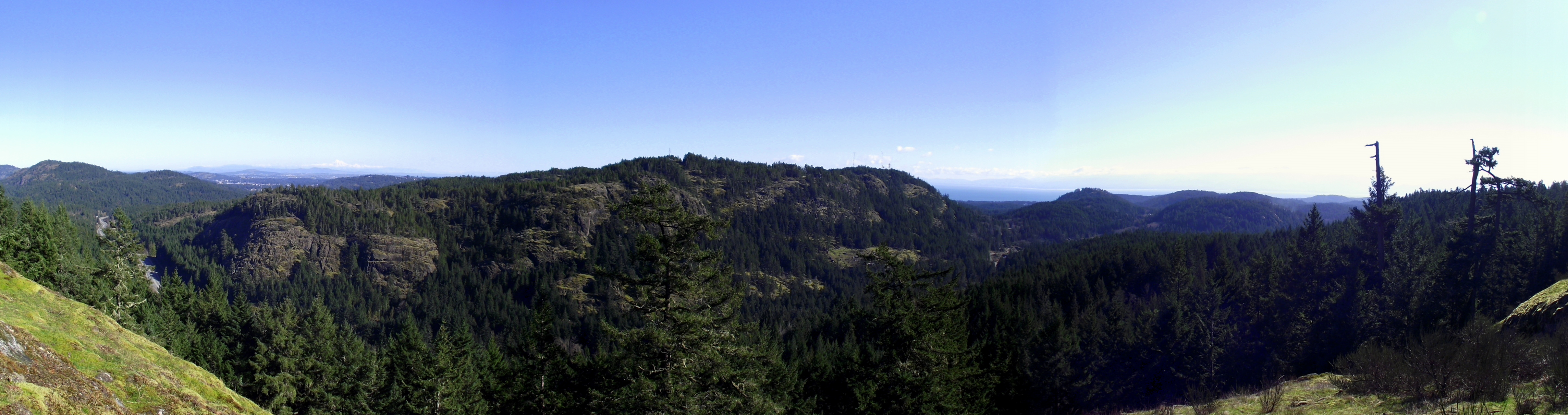 Mount Helmcken from across the valley